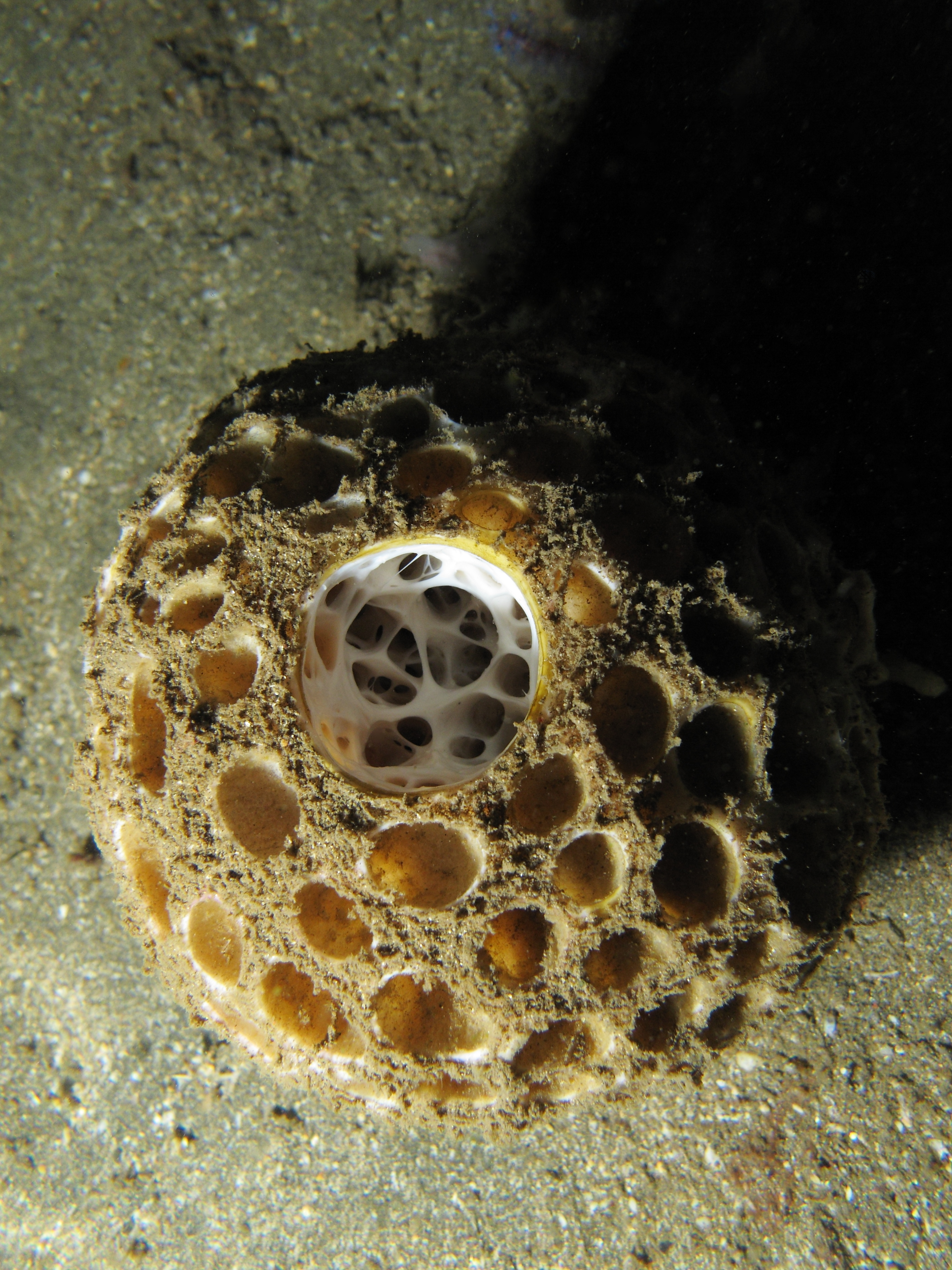 Cinachyrella sp. sponge at Bima bay (Sumbawa, Indonesia)